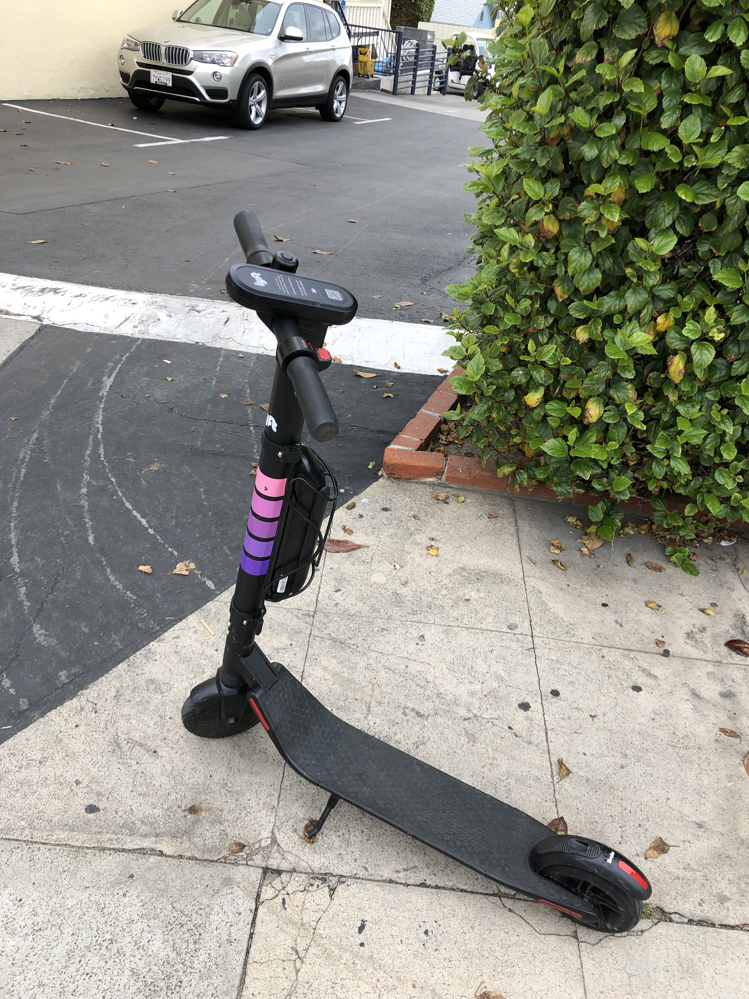 Lyft Scooter